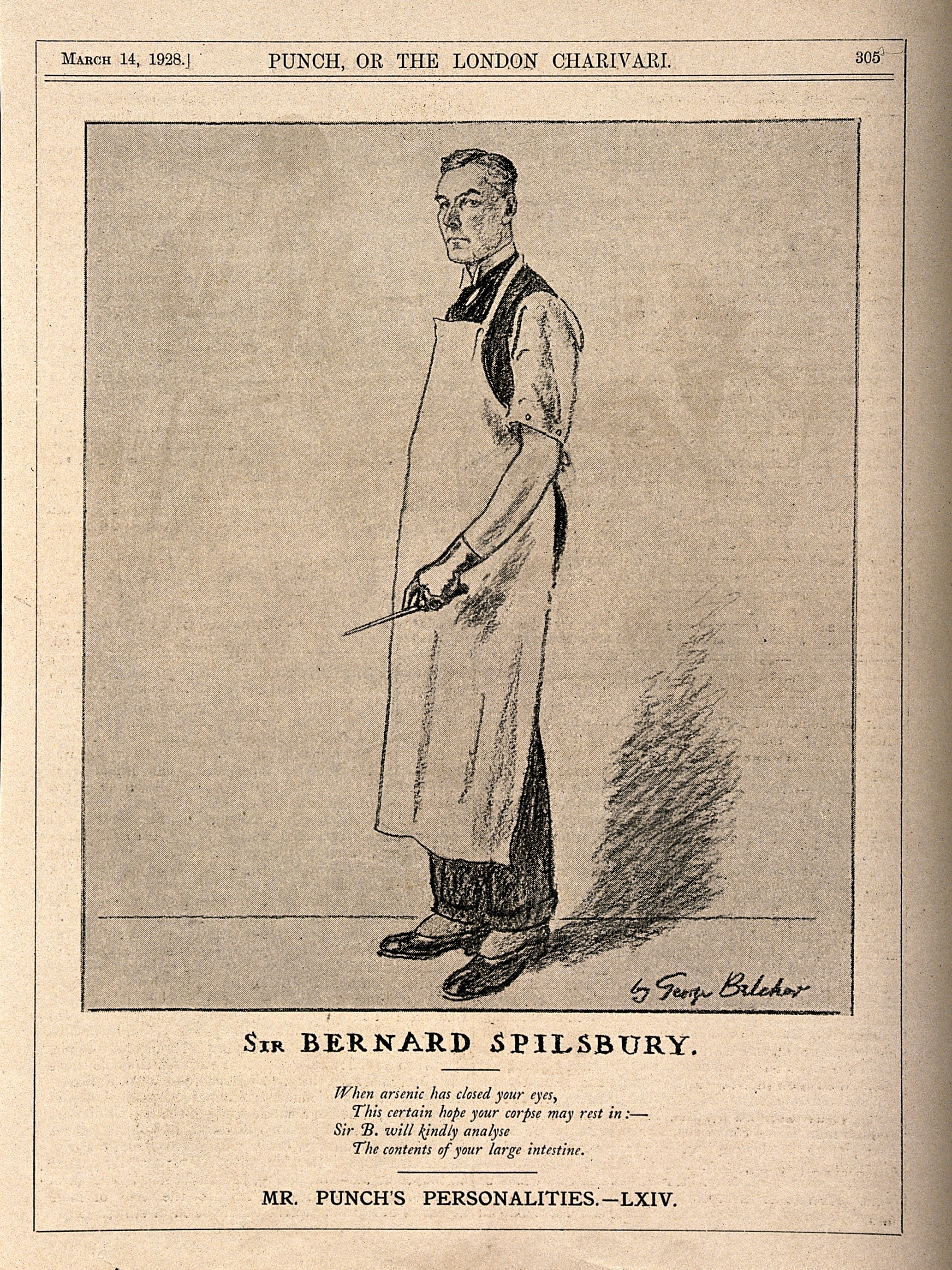 Sir Bernard Spilsbury, a famous pathologist. Reproduction of a drawing after G. Belcher, 1928. Iconographic Collections Keywords: trails (murder); portrait prints; George Belcher; spilsbury, bernard, sir, 1877-; pathologists; Bernard Spilsbury